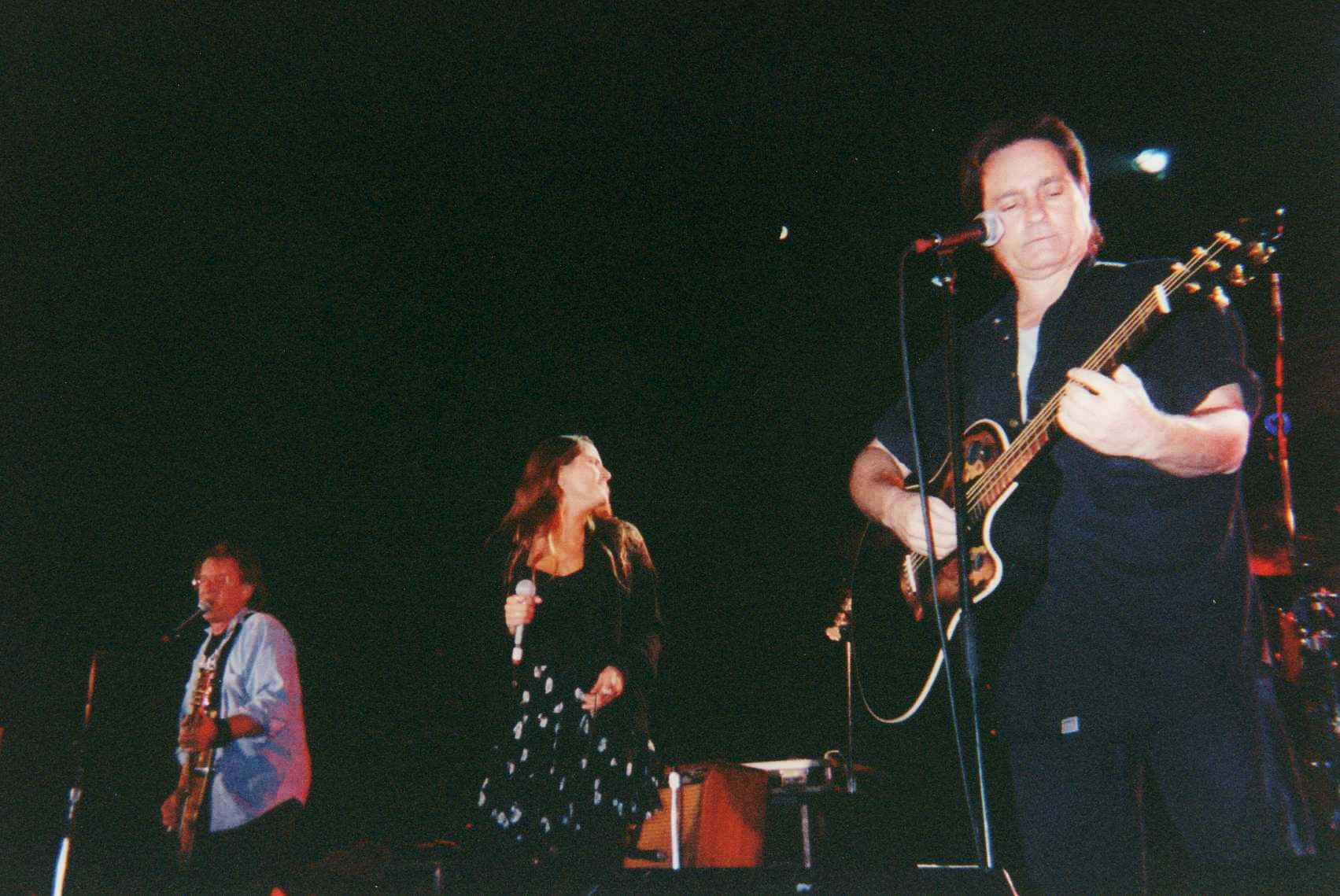 Paul Kantner, Diana Mangano, and Marty Balin of the Jefferson Starship, in a private concert for the SCO Forum 96 computer conference in the courtyard of Cowell College at University of California, Santa Cruz.